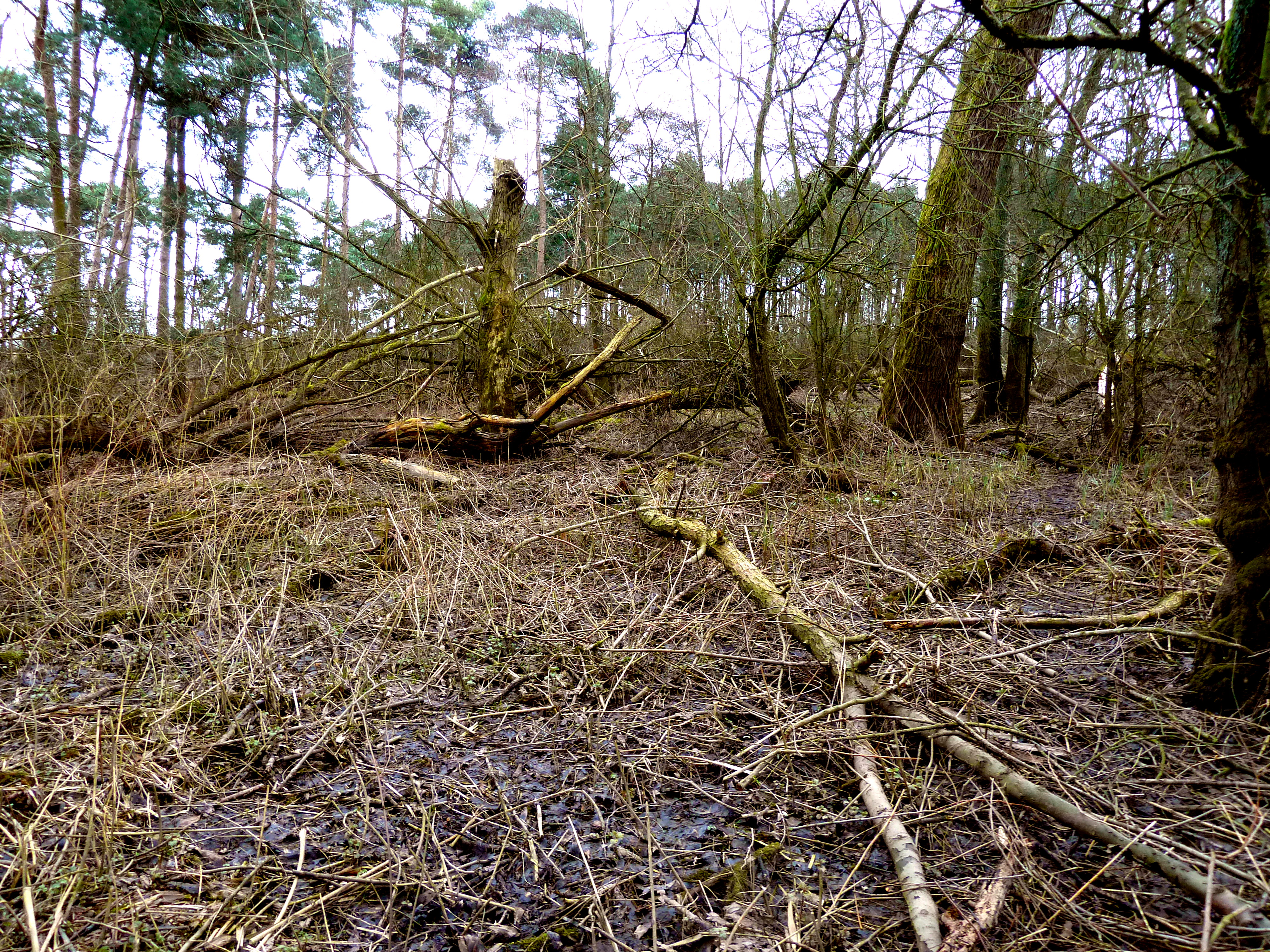 Bishop Monkton Ings, near Bishop Monkton village, North Yorkshire, England. This is a Site of Special Scientific Interest, containing a small area of deciduous woodland carr, most of the site's area being bog and fen. The whole site is waterlogged, and there is no public access. It can be seen from a public footpath which remains muddy for most of the year. Showing woodland carr.